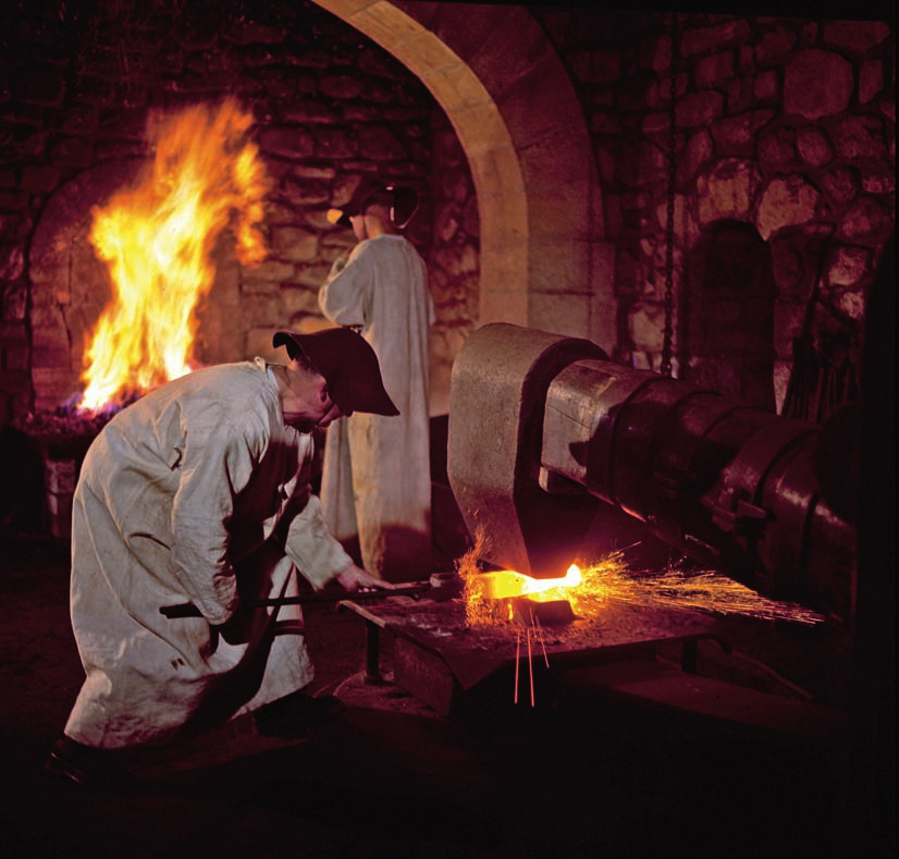 Finery forge